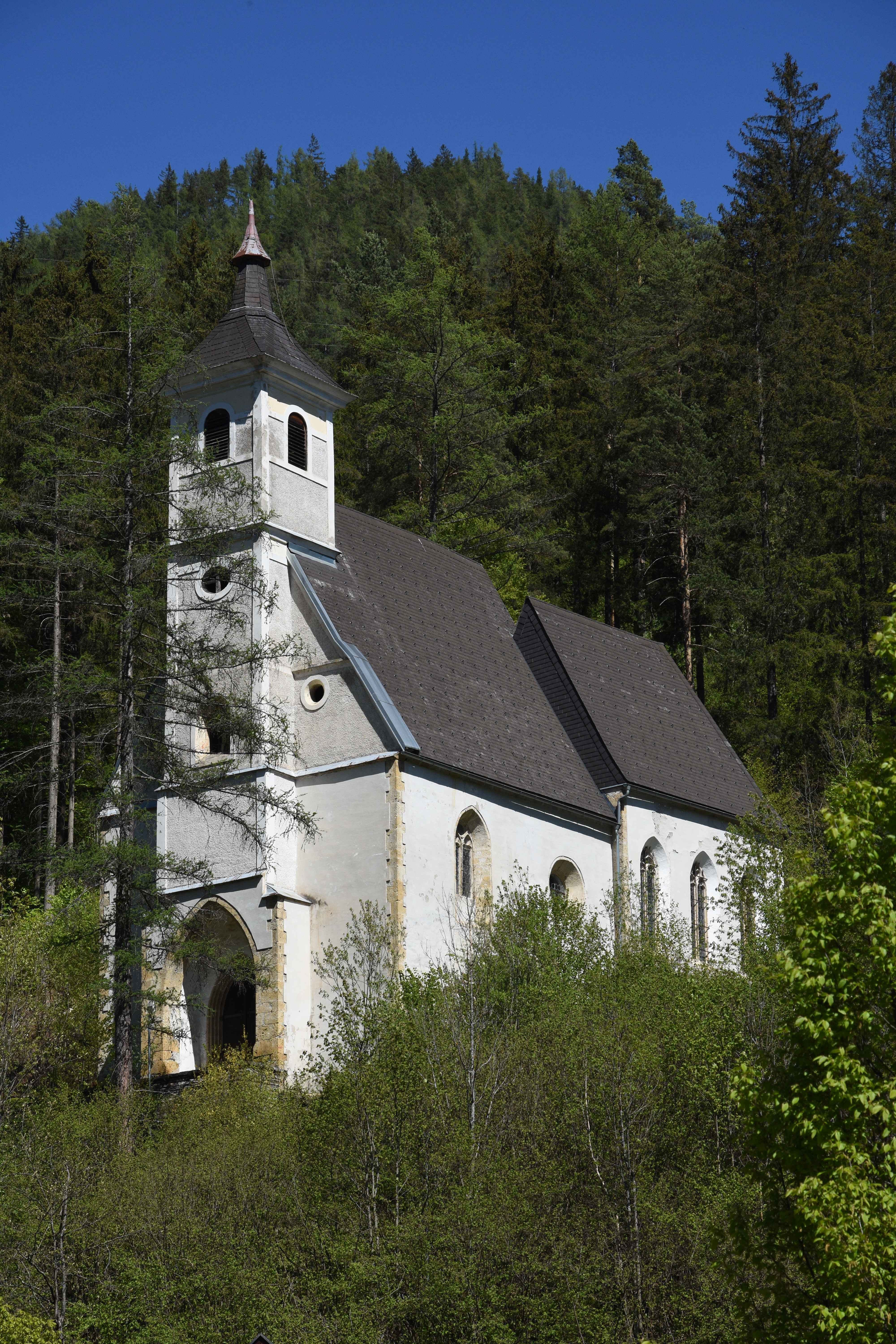 Church Filialkirche hl. Alexius, Sankt Kathrein an der Laming